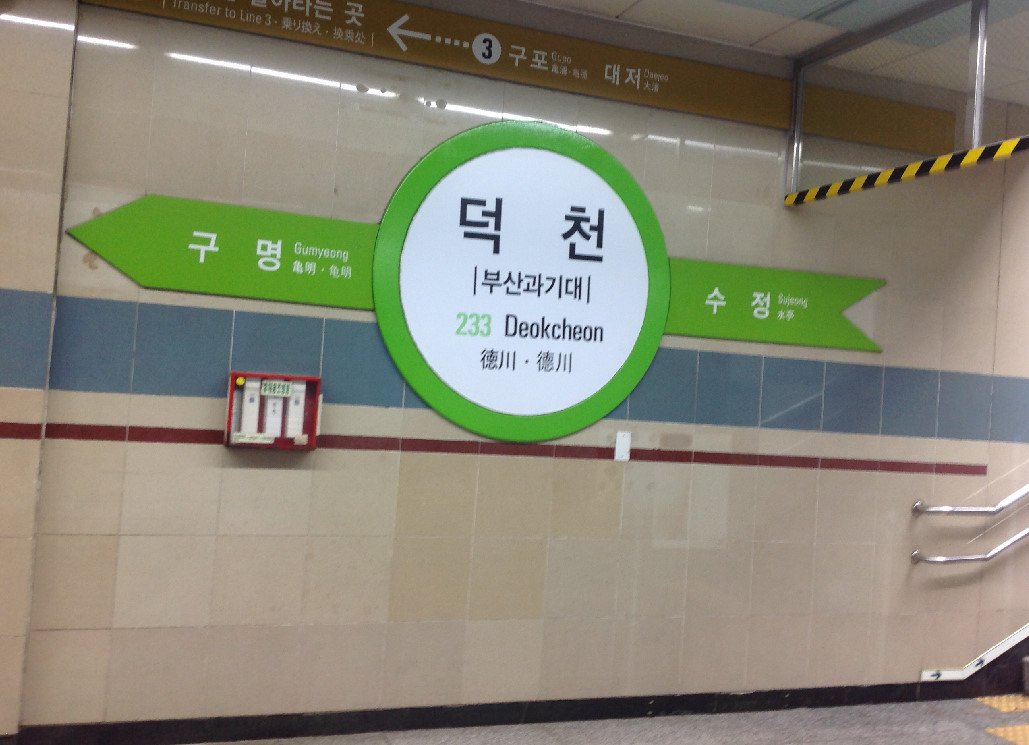 Deokcheon2